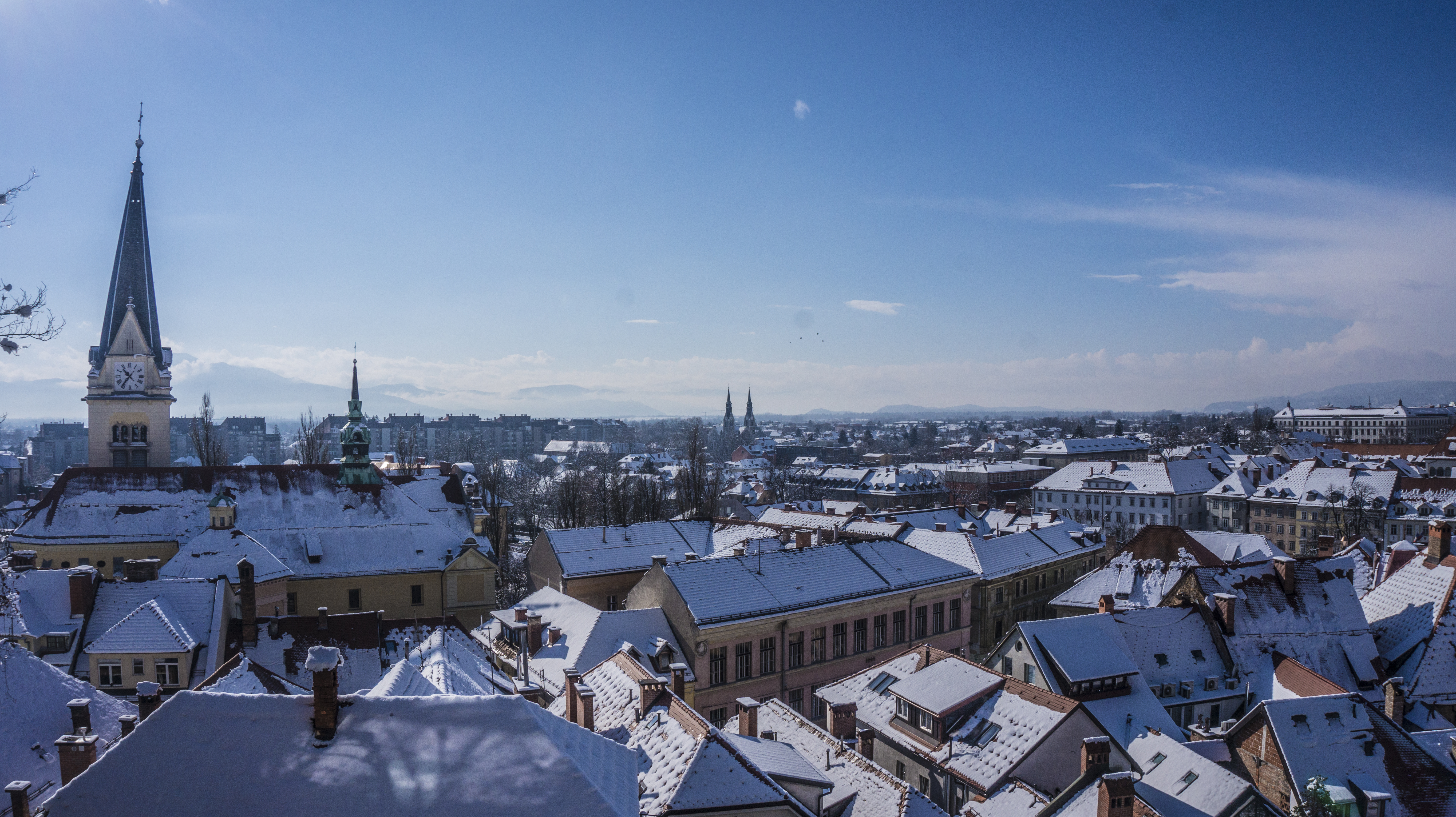 Winter is back!